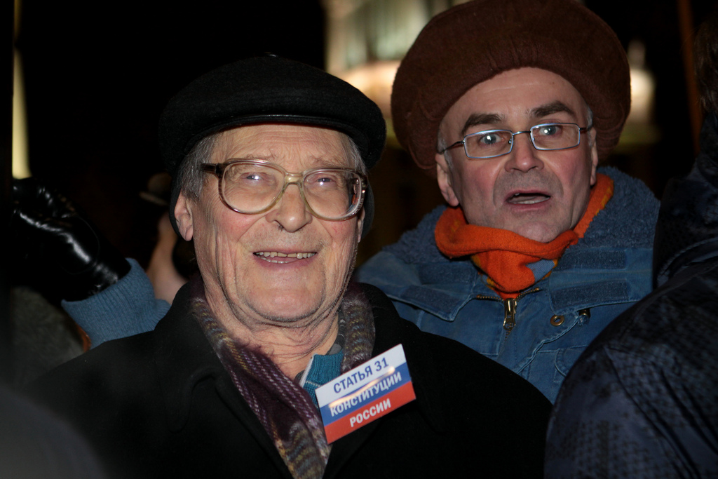 Sergei Kovalev. Action in defense of Article 31 (Freedom of assembly) of the Russian Constitution. Moscow, January 31, 2010